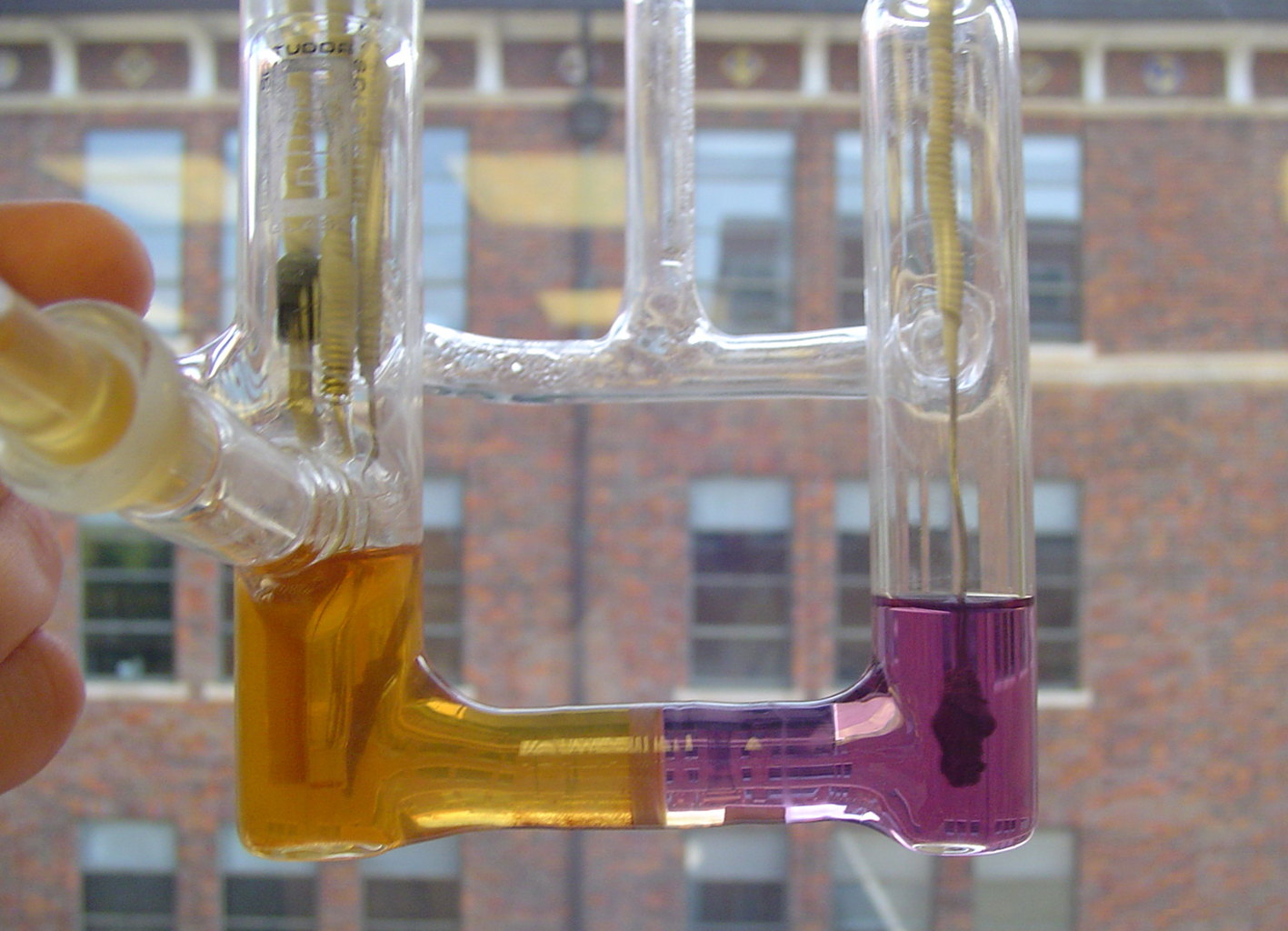 High vacuum electrolysis of a C60-fullerene derivative. Slow diffusion into the anode (right side) yielded the characteristic purple color of the famous C60 cage.